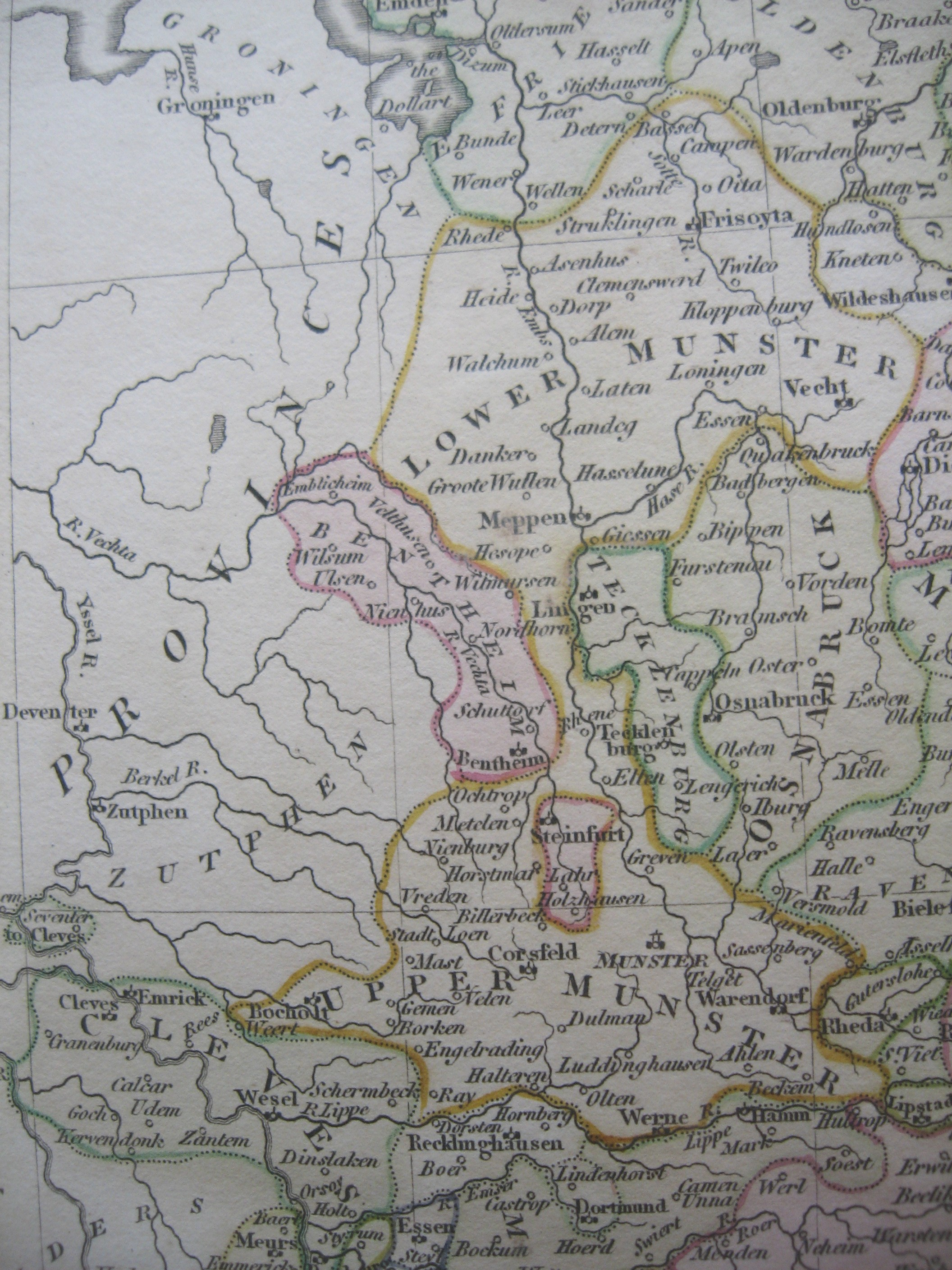 Lying on the eastern borders of the United Provinces (Dutch Republic) the Prince-Bishopric of Münster was strategicaly located. Cropped from a map of Westphalia published by R. Wilkinson, circa 1800.